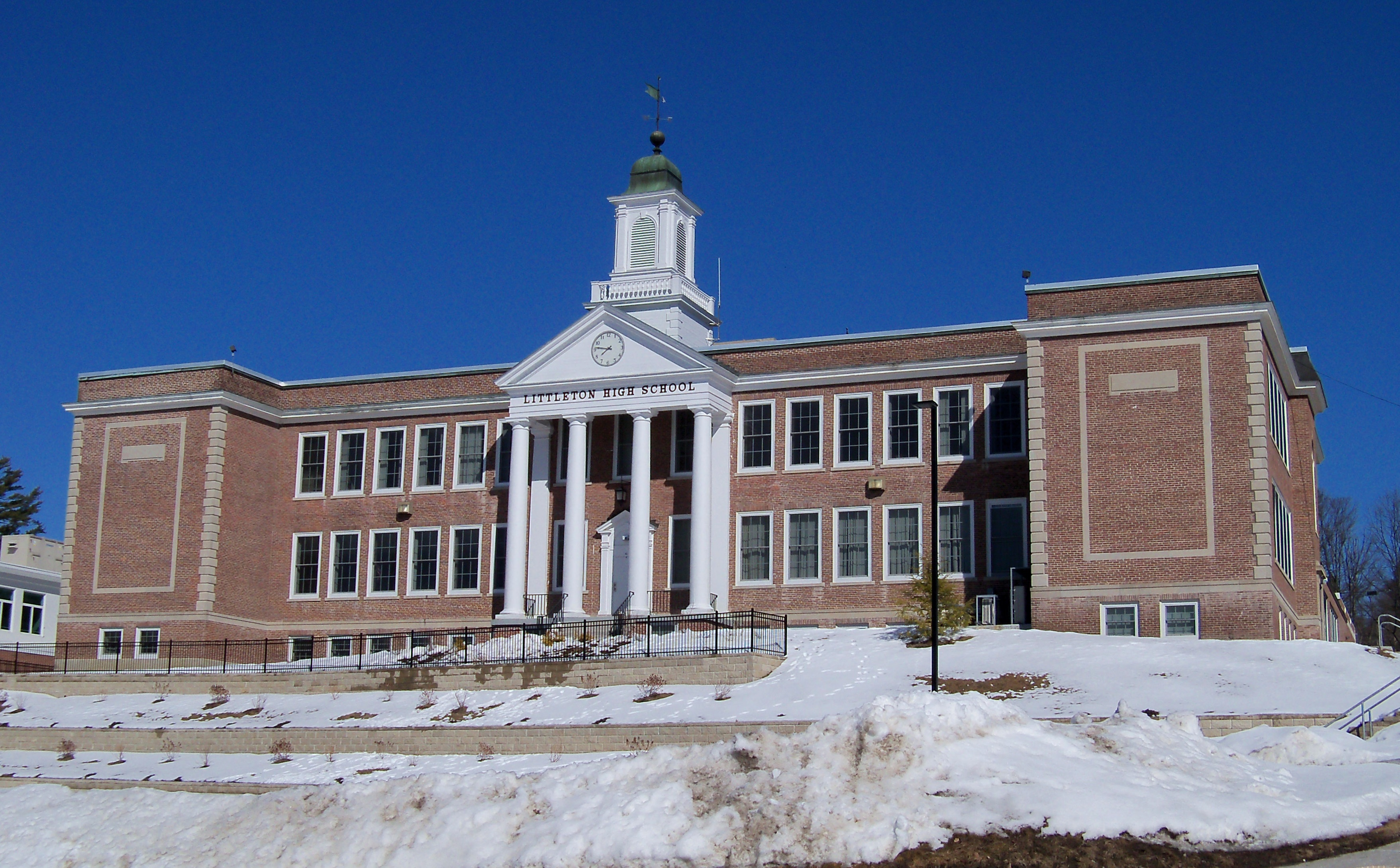 Littleton High School in Littleton, New Hampshire, USA.